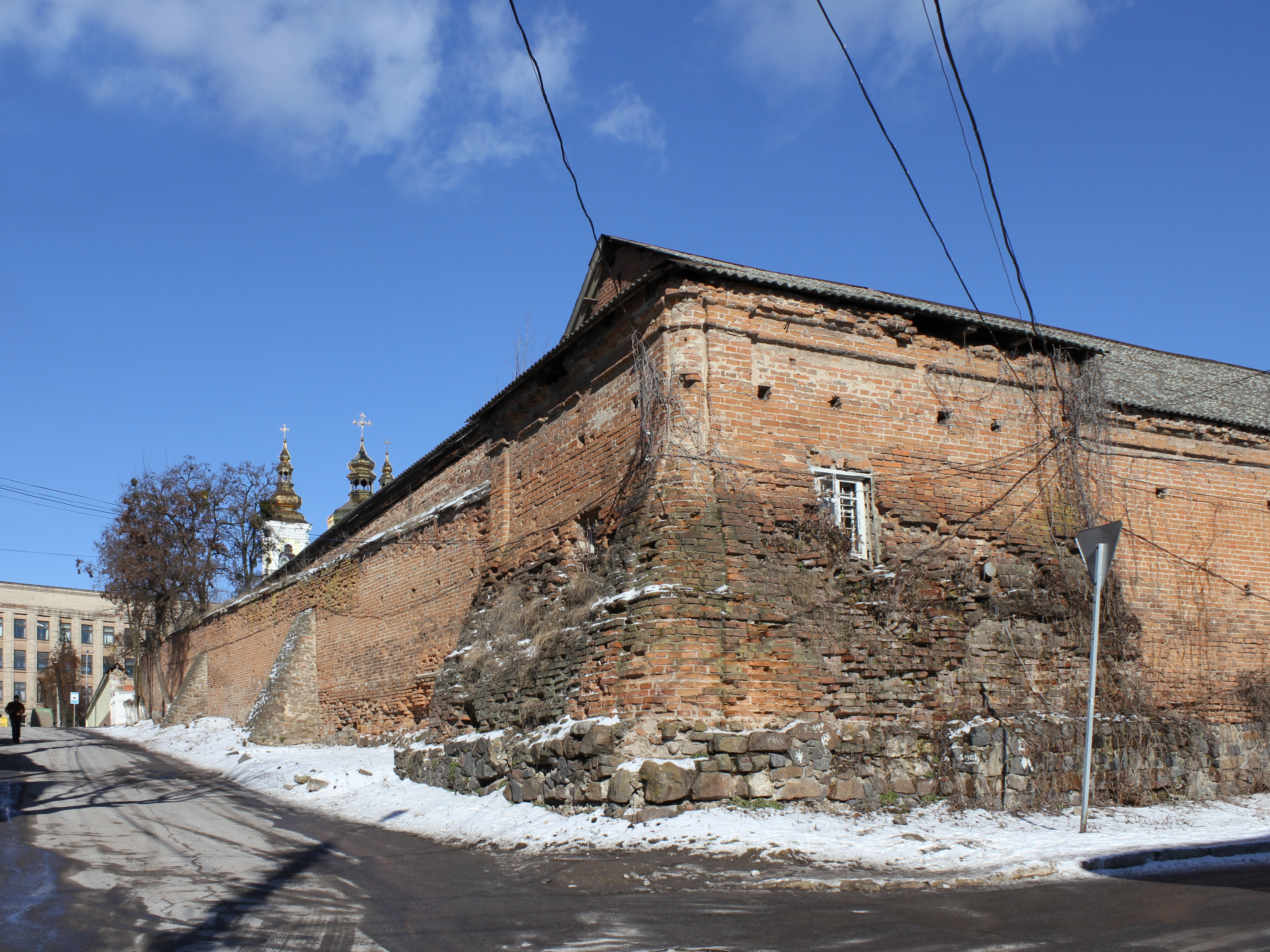 Extant part of fortress named Mury with angle tower. Built in 1610—1617. Ukraine, Vinnitsa. Osipenko street.